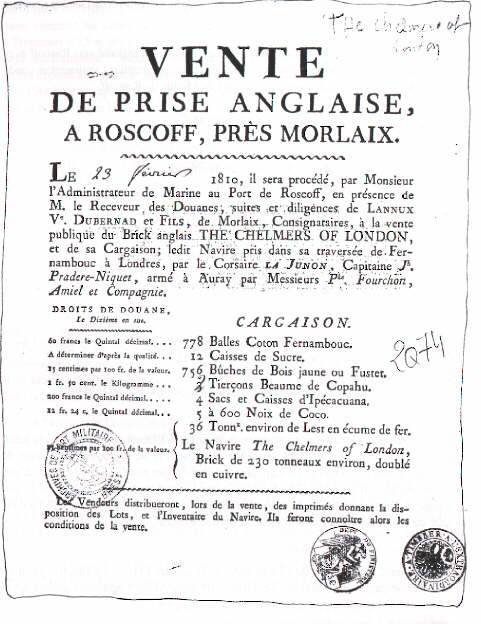 Sale of the prize Chelmers of London, brig captured by the French privateer Junon